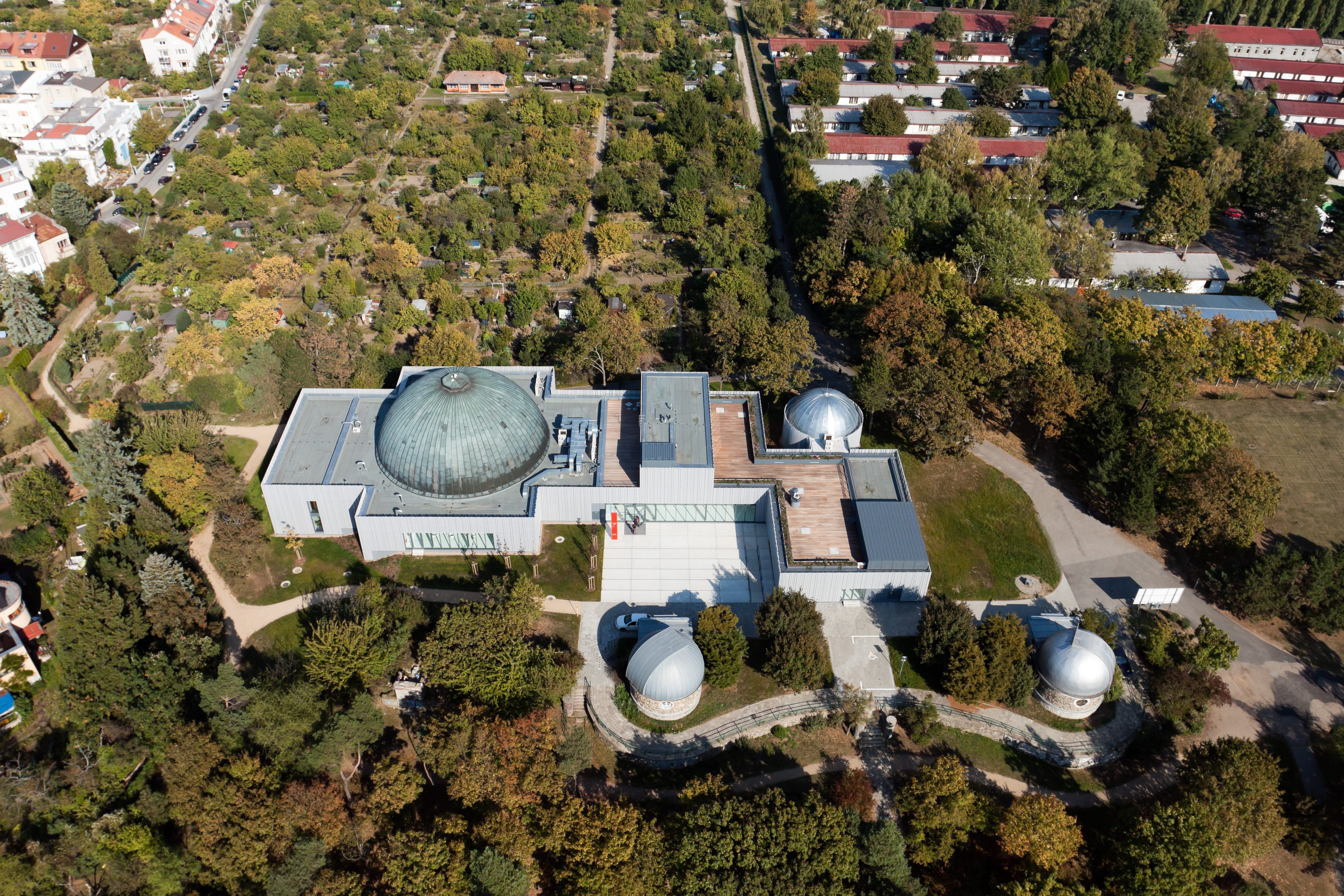 Brno Observatory and Planetarium's building at Kraví hora in Brno, Czech Republic